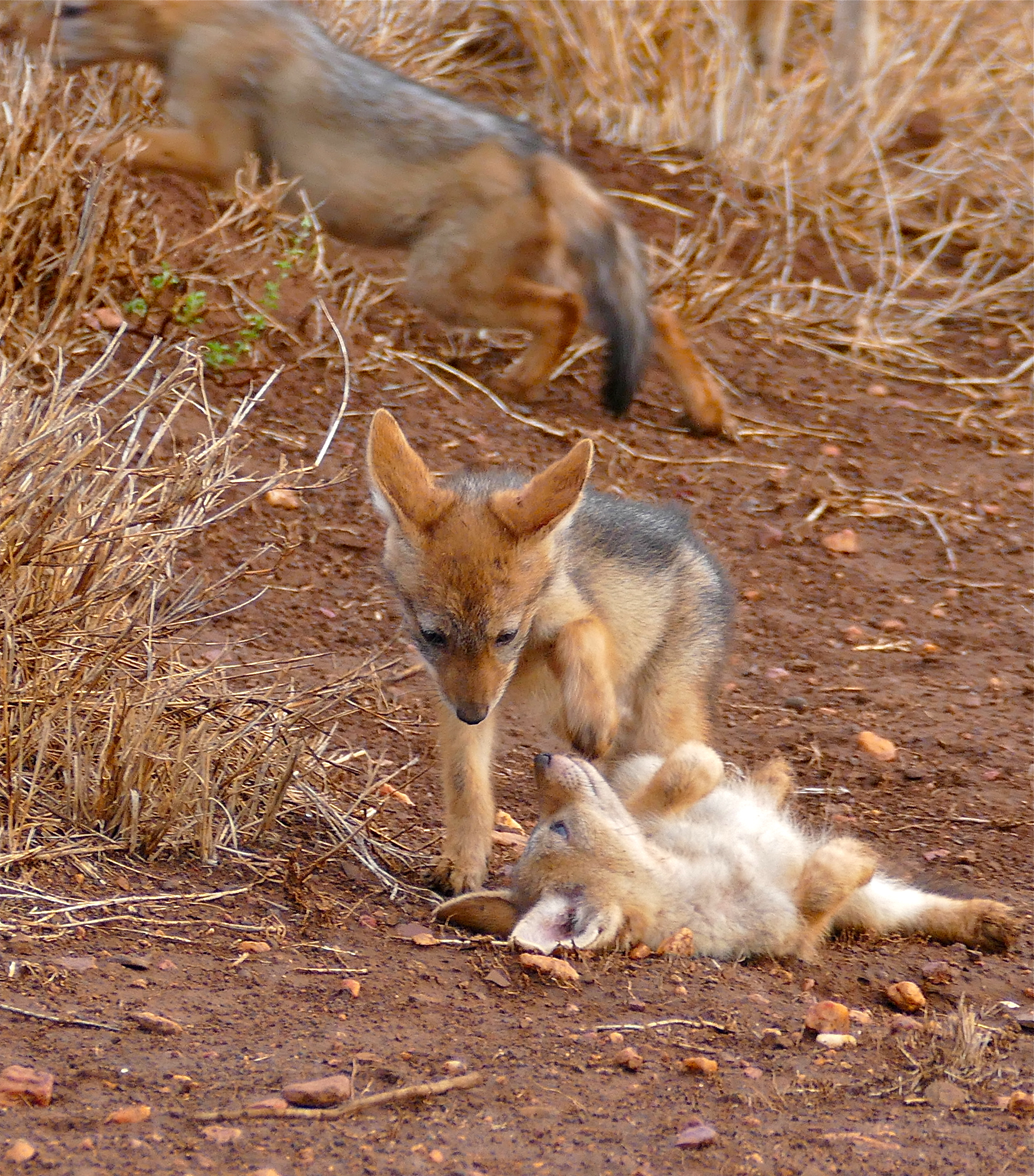 H1-3 Road South of Satara, Kruger NP, Mpumalanga, SOUTH AFRICA